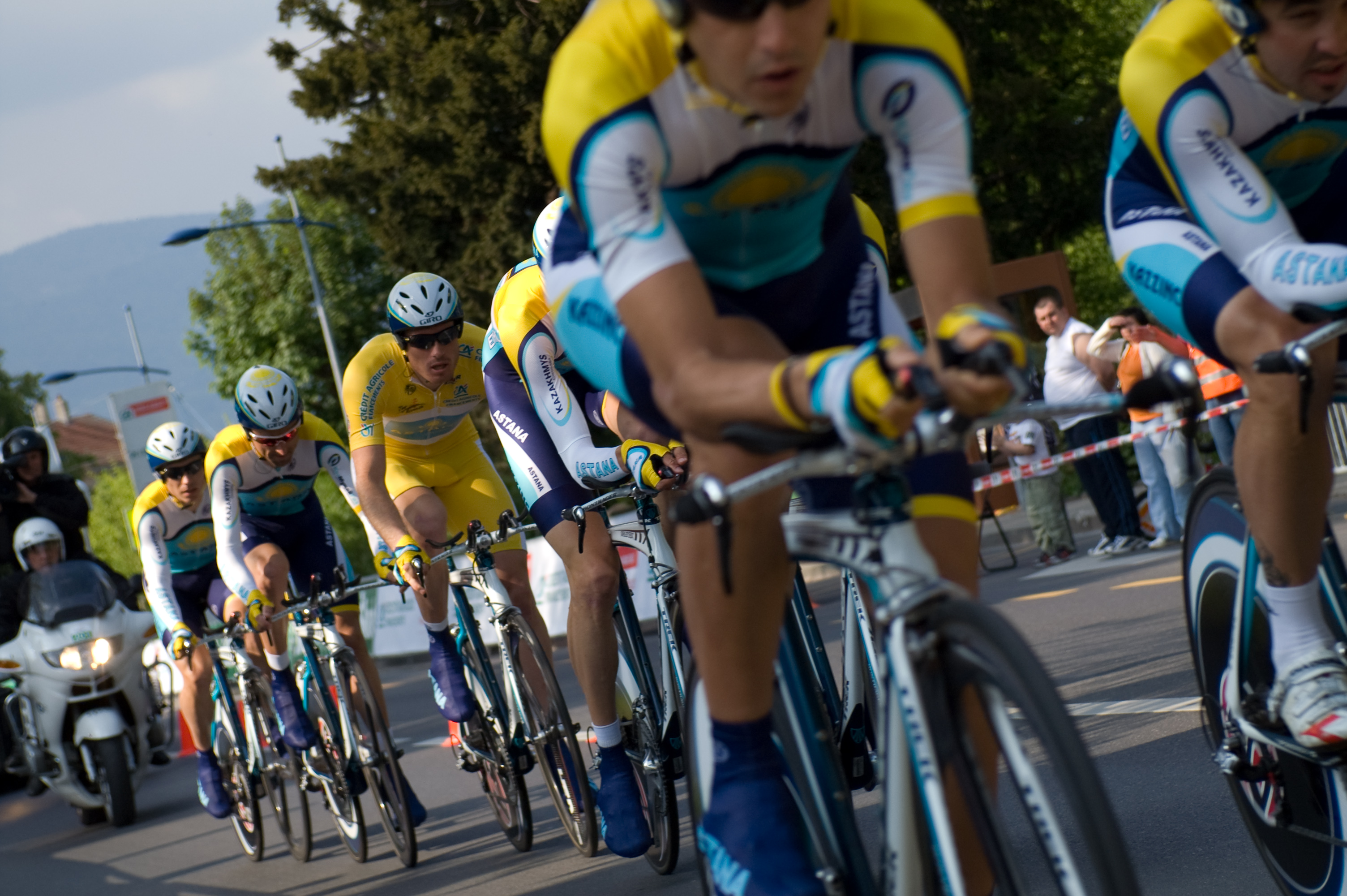 Tour de Romandie 2009 - 3rd stage - team time trial